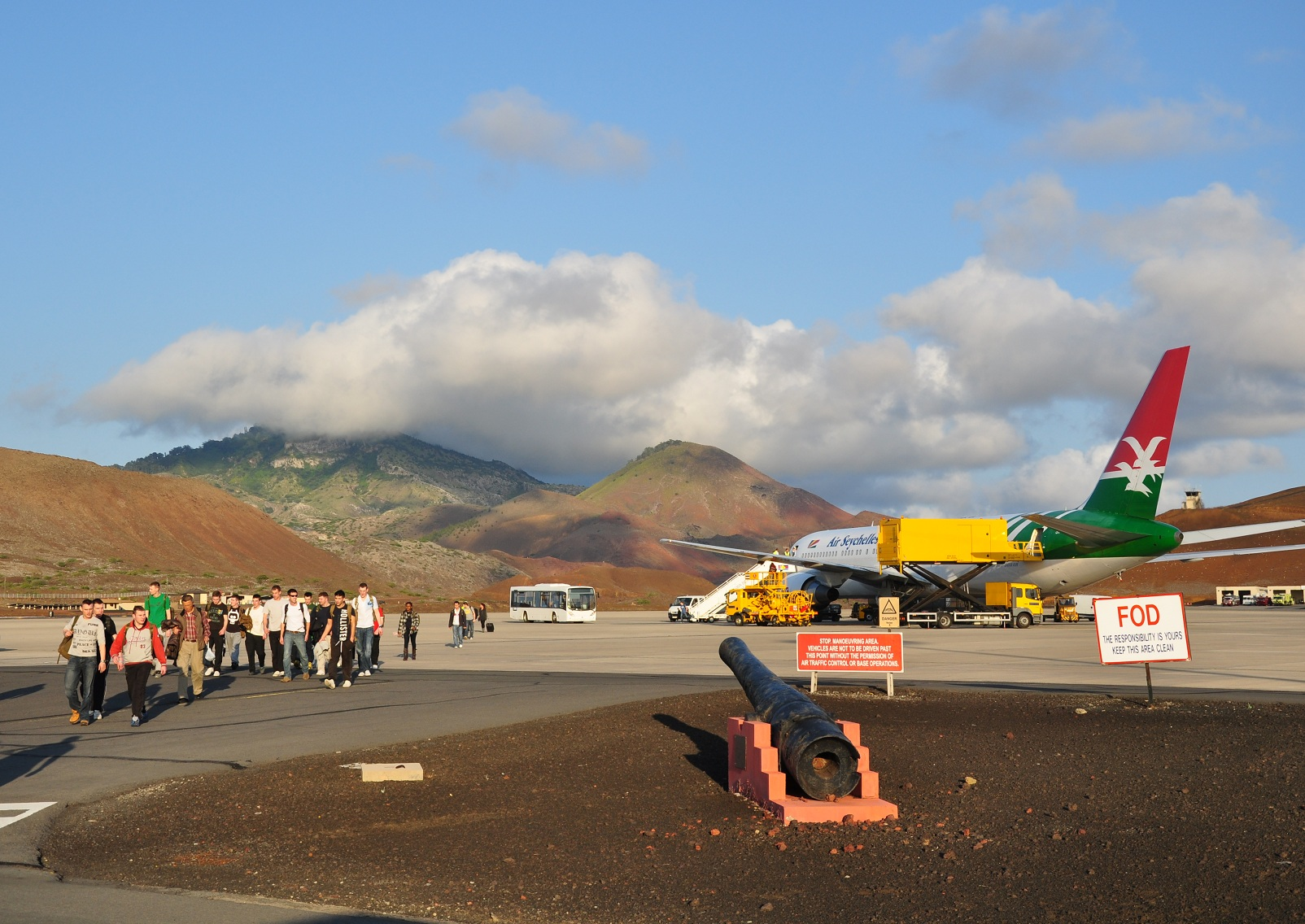 Wideawake Airfield on Ascension Island with a plane from Air Seychelles (on contract to the UK Ministry of Defence) to maintain the airlink between RAF Brize Norton in Oxfordshire and RAF Mount Pleasant in the Falkland Islands. Left of the centre is Green Mountain, the island's highest summit.